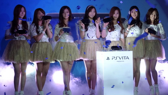 A Pink in February 2012. Left to right: Yookyung, Eunji, Bomi, Naeun, Chorong, Hayoung and Namjoo.